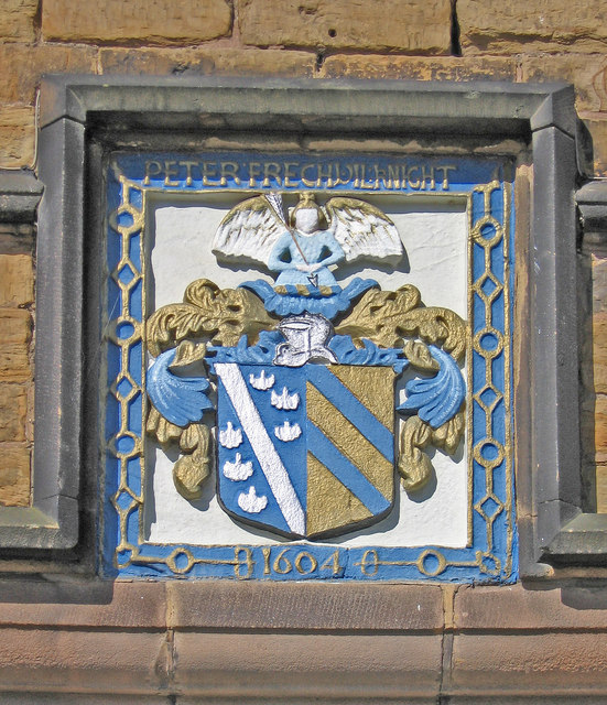 1604 heraldic shield above the front door of Staveley Hall, Derbyshire, showing the arms of the father[1] of Sir Peter Frescheville, MP, ( Azure, a bend between six escallops argent),[2] impaling Argent, two bendlets sable (painted incorrectly here as Or, two bendlets azure), for Kaye of Woodsome, Yorkshire, for Peter's mother Margaret Kaye, daughter of Arthur Kaye of Woodsome, Yorkshire. ( A Display of Heraldry By William Newton, London, 1846, p.50[1]) Guillim, John, A Display of Heraldry, 1724 (6th ed.), p.194, gives the arms of Sir John Kay of Woodsom, Yorkshire as Argent, two bendlets sable[2]. The arms are not, as might be expected, for Fleetwood (Party per pale nebuly azure and or, six martlets, 2, 2 and 2 counterchanged), for his first wife Joyce Fleetwood, whom he married in 1604). More examples of the Frecheville arms in the Church of St. John the Baptist, Staveley. (Images see:[3] )( Kelly's Directory of the Counties of Derby, Notts, Leicester and Rutland pub. London (May, 1891) - pp.306-308[4])